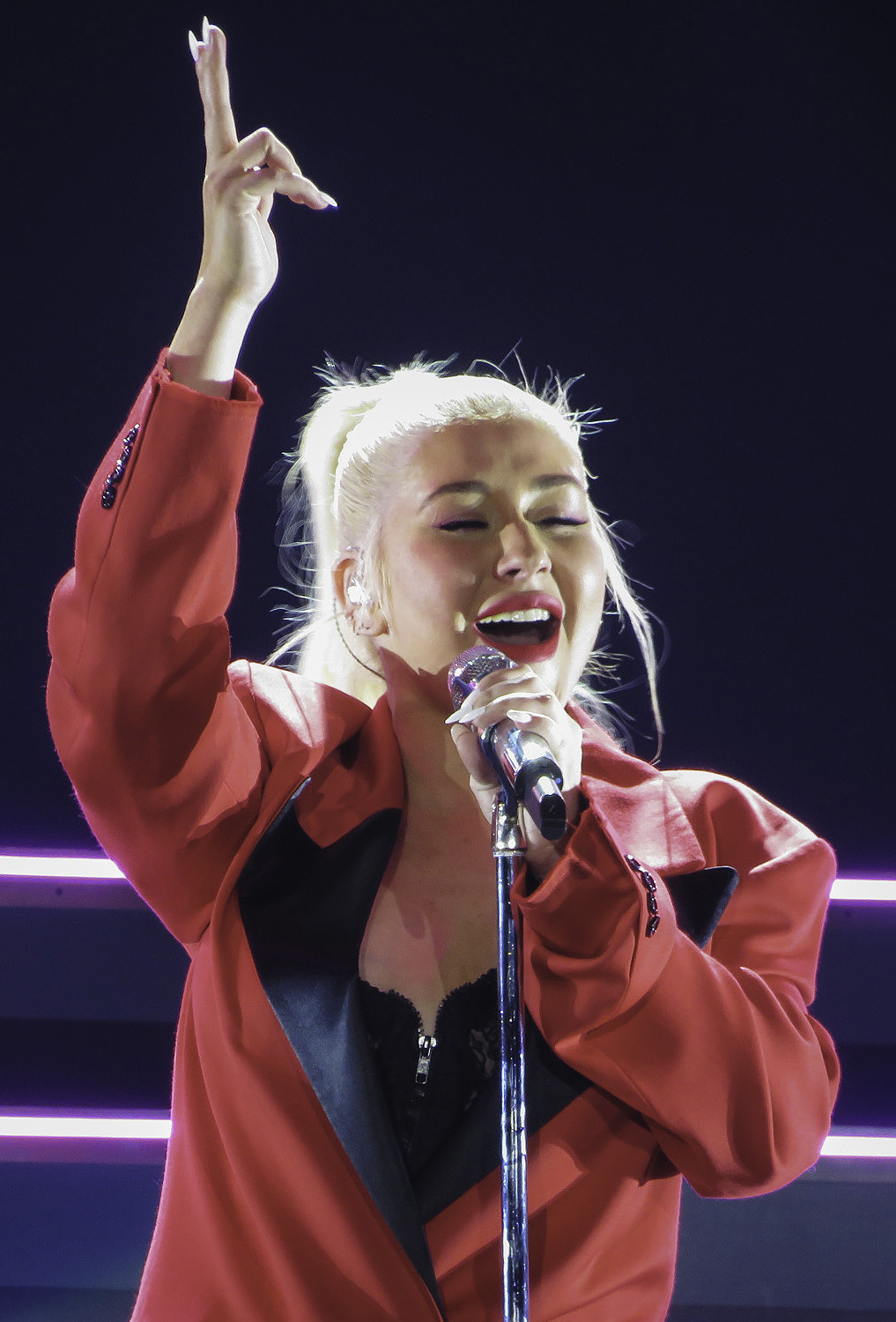 Christina Aguilera performing at the Pepsi Center on October 19, 2018 on her Liberation Tour.